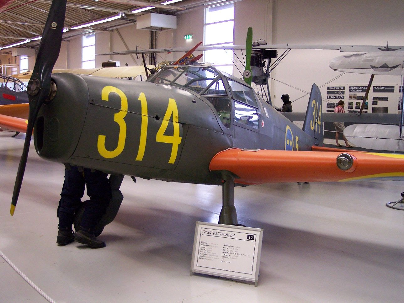 Bücker Bü 181, swedish air forces